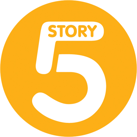 Logo of the Hungarian television channel Story5